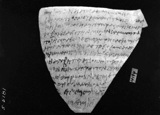 The piece is held in the University of Michigan Library and is out of copyright. I also have permission from the director of the Papyrus Collection to use digital images for the Wikipedia site. Content of the ostracon is: Private letter concerning the use of oxen for the sowing